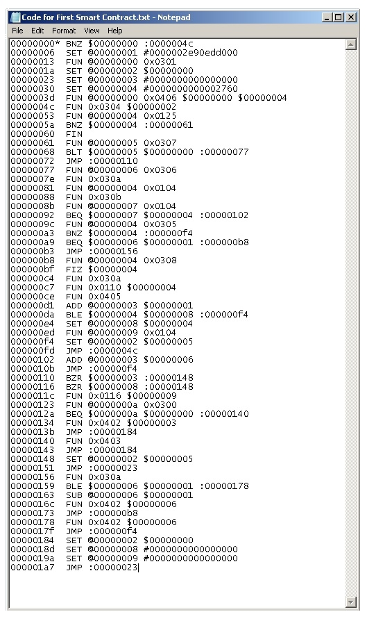 Burstcoin first smart contract